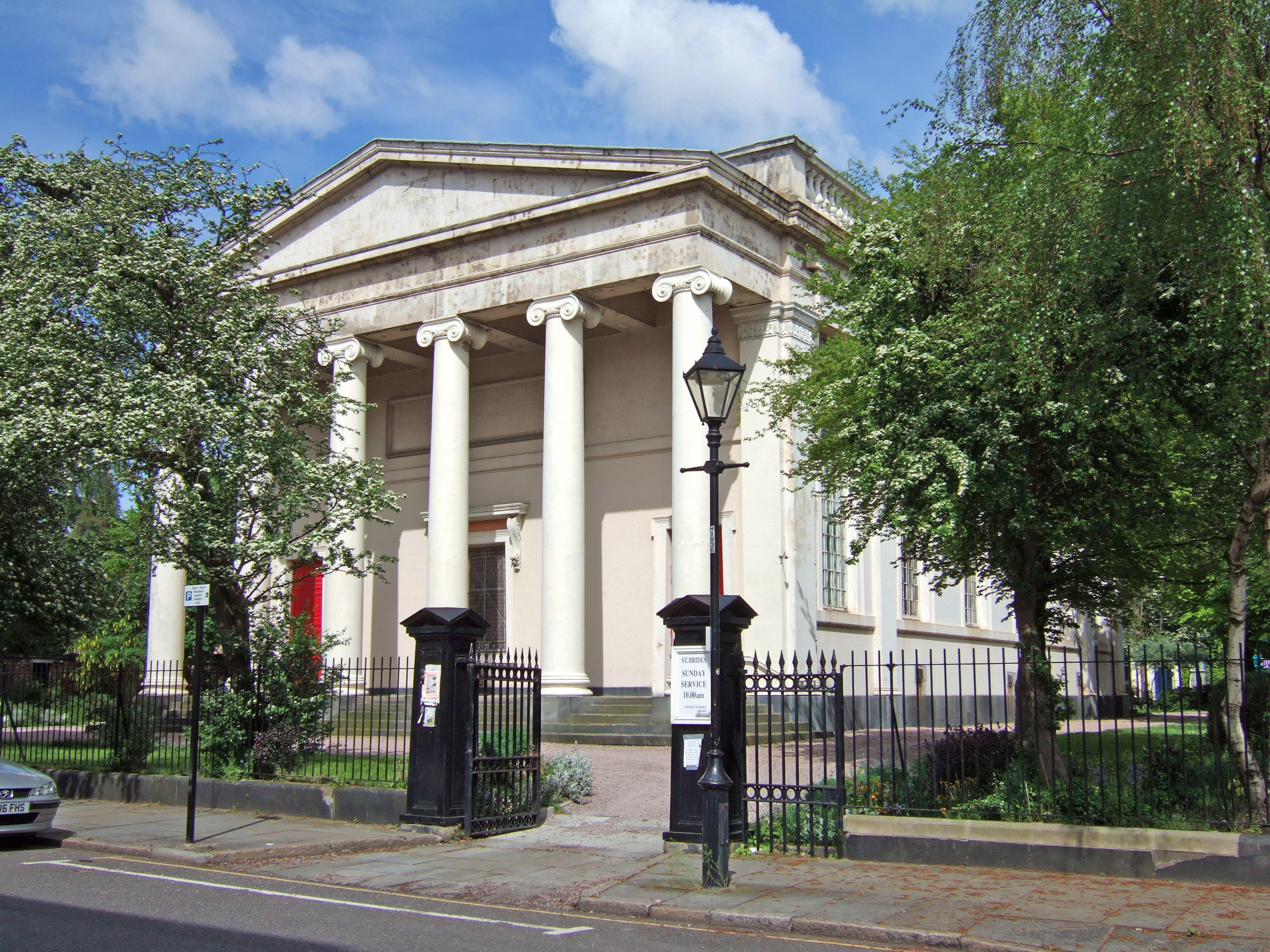 West front of St Bride's Church, Liverpool, seen from the southwest from Percy Street